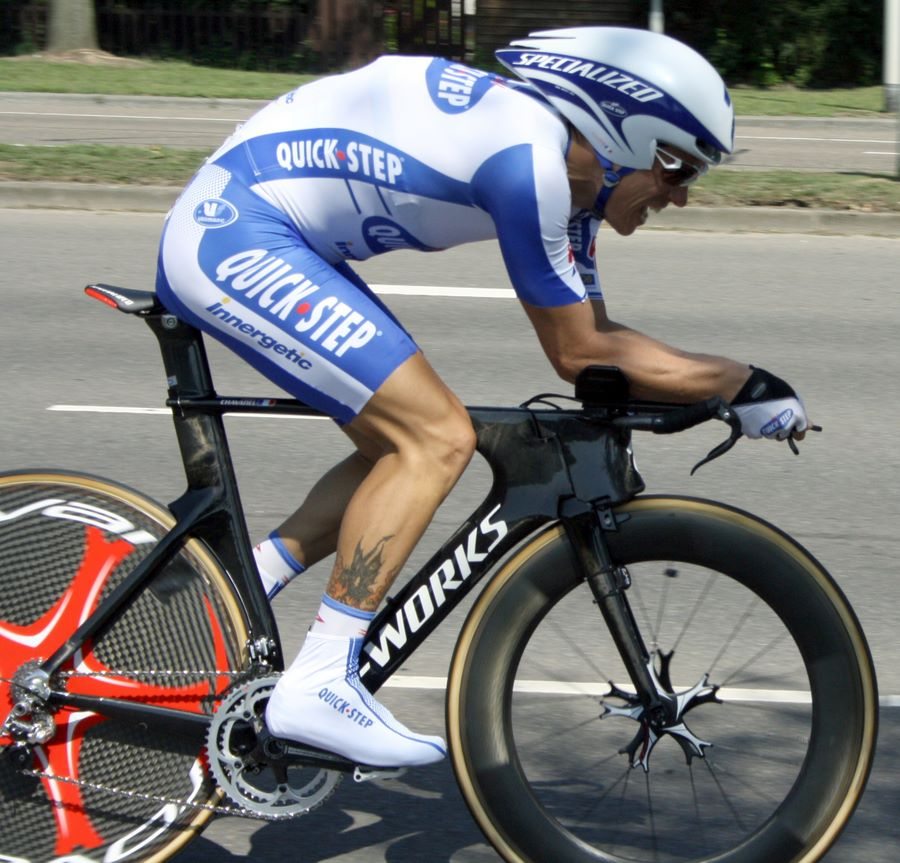 Sylvain Chavanel at the 2009 Eneco Tour prologue